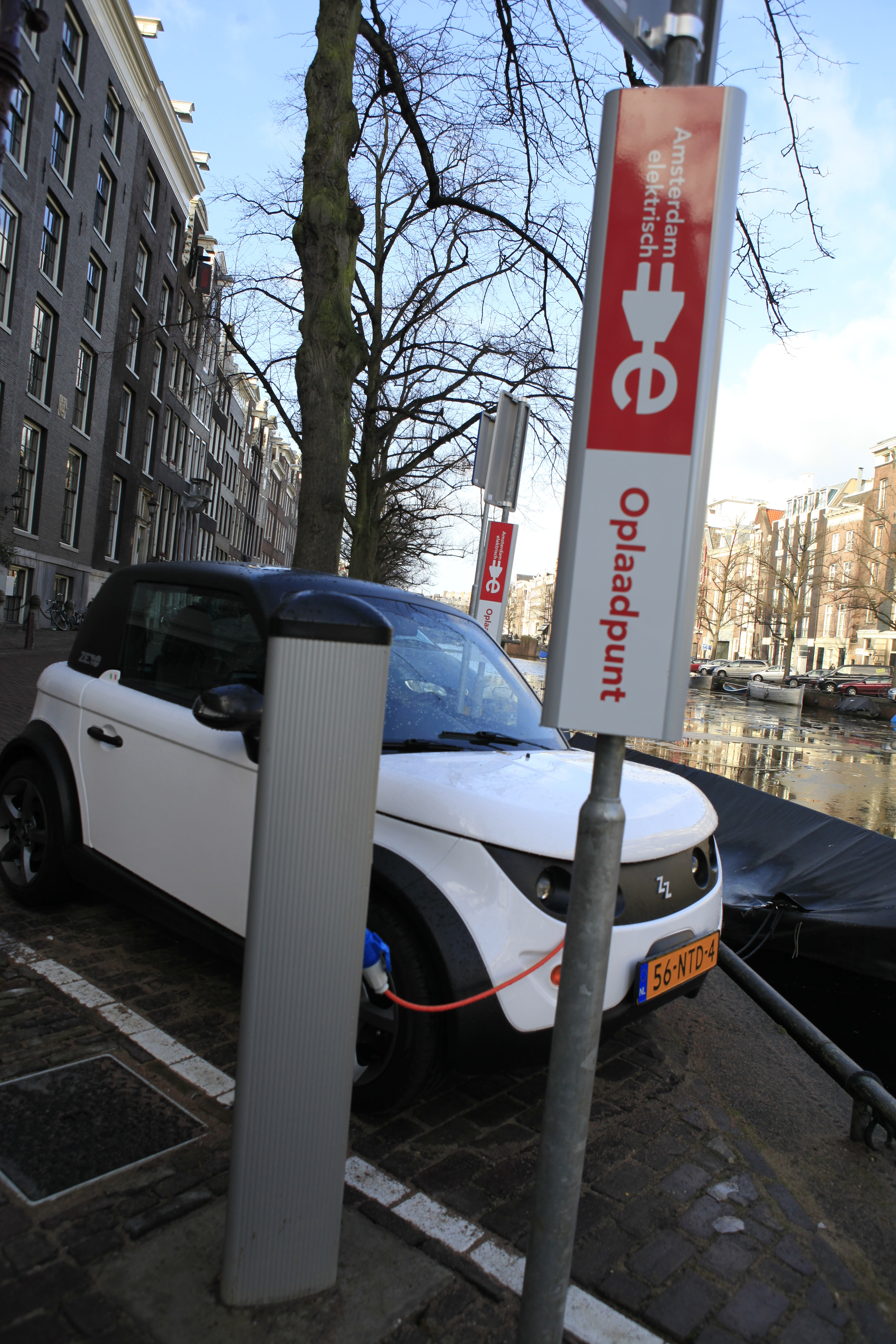 Charging station for electric vehicles alongside an Amsterdam canal. (A Tazzari Zero, purchased @ MisterGreen)